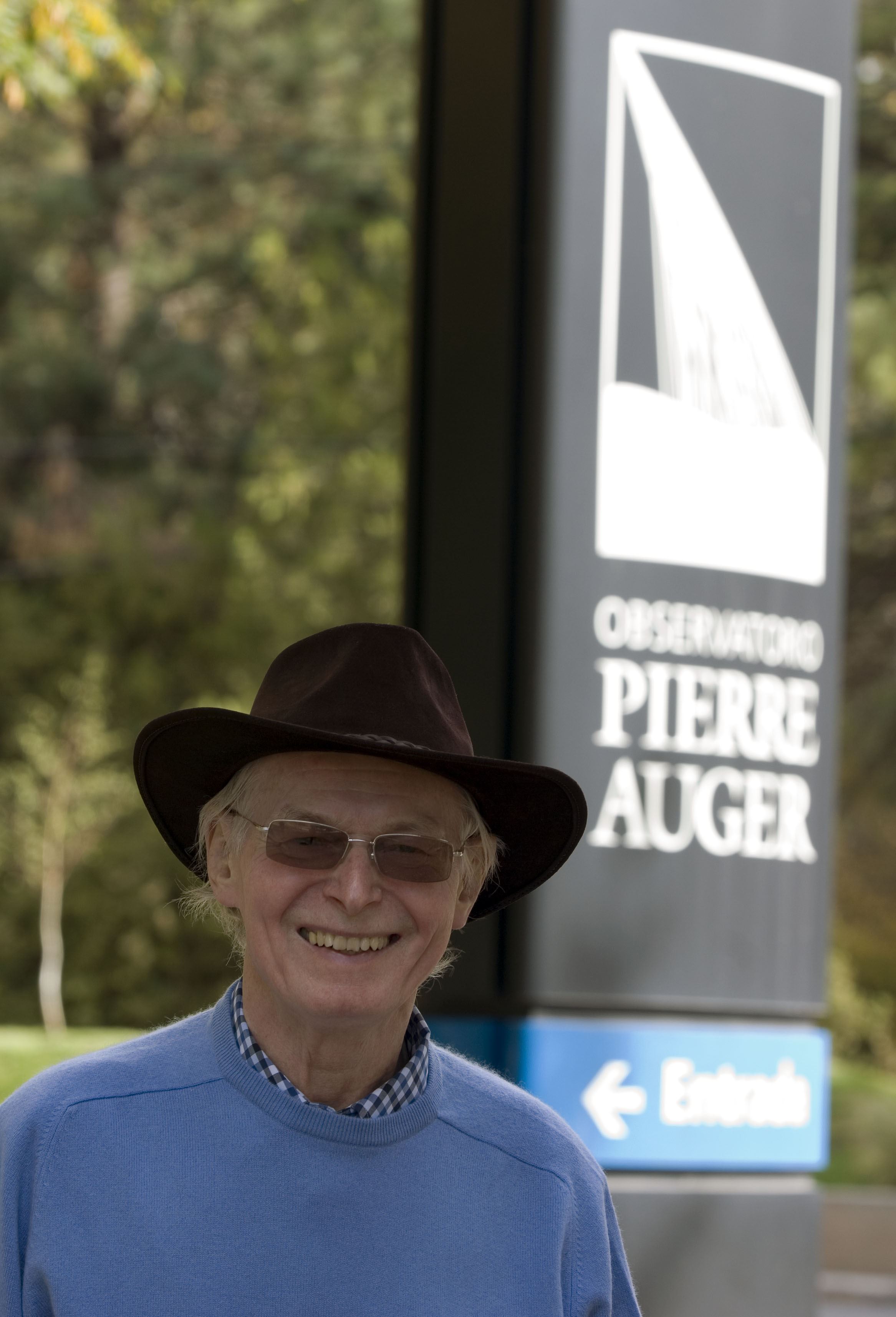 Spokesman Alan Andrew Watson at the inauguration of the Pierre Auger Observatory in Malargue, Argentina, 2008